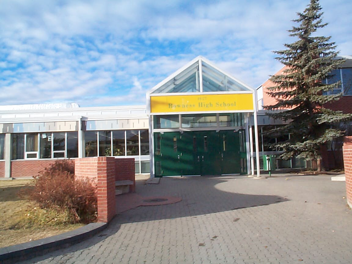 Subject: Bowness High School Location: 4627 - 77 Street N.W., Calgary, Canada (in the Bowness neighborhood) Subject: Entrance on East side of high school. Photographer: User:Thivierr Date taken: November 26, 2005 Copyright release: The original copyright holder (uploader and photographer) releases the image to the public domain without reservation.